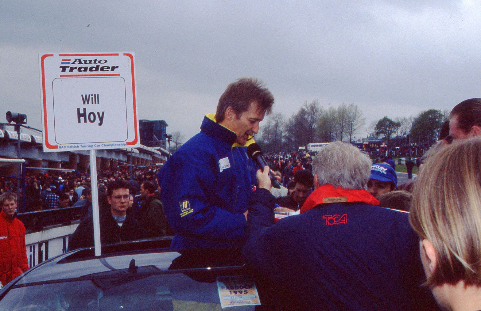 Will Hoy at a BTCC Meeting at Brands Hatch in 1995